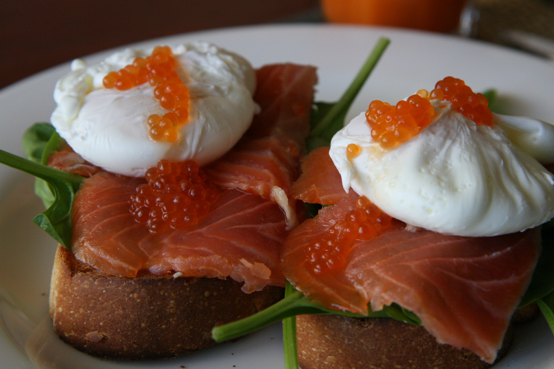 Perfectly poached eggs with smoked salmon, english spinach on sourdough toasts topped with salmon caviar.